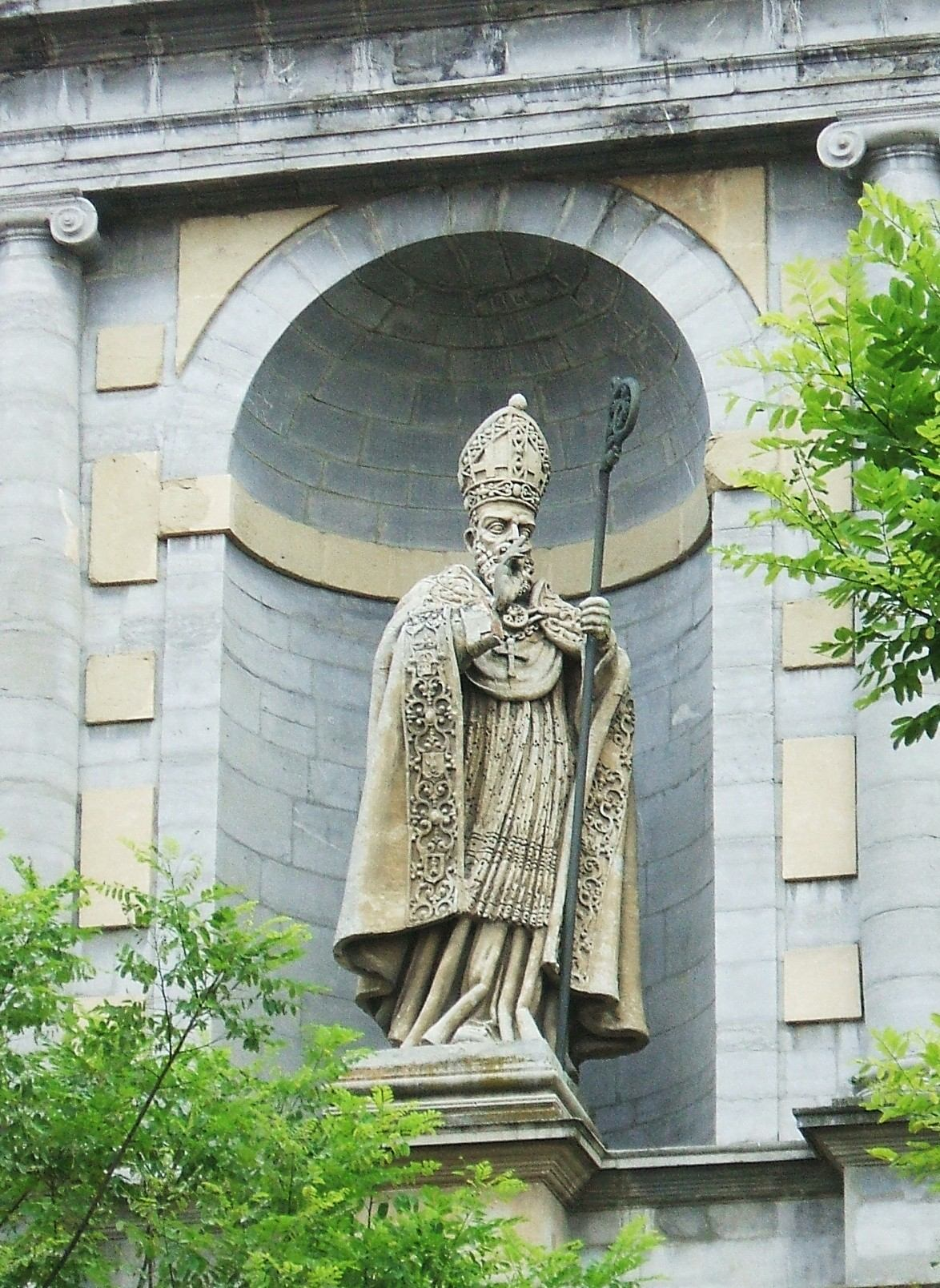 Escultura de San Prudencio, en la fachada de la Capilla del Antiguo Hospicio, y anteriormente Colegio de San Prudencio, de Vitoria-Gasteiz, País Vasco, España